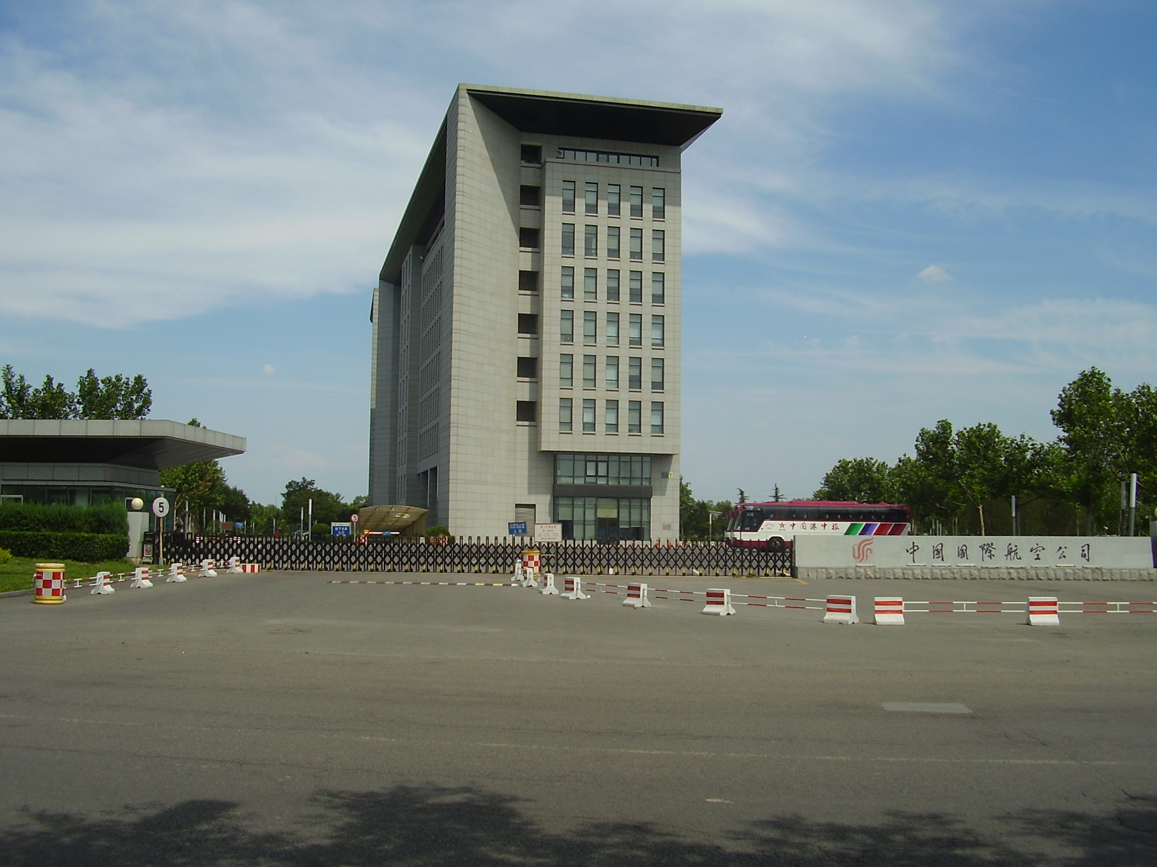 Air China HQ Building (S: 国航总部大楼, T: 國航總部大樓, P: Guó Háng Zǒngbù Dàlóu) - No 30 Tianzhu Road Tianzhu Airport Economic Development Zone Beijing China (People's Republic of) 100621